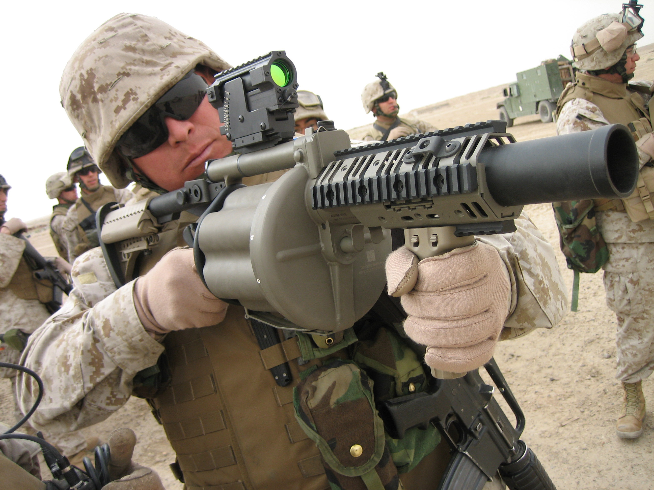 Staff Sgt. James C. Sanchez looks through the M2A1 reflex sight on the M-32 Multiple shot Grenade Launcher, an experimental six-round weapon that can deliver six 40 mm grenades in under three seconds. Marines are fielding the new rapid-fire weapon to troops to boost small-team capabilities to deliver greater indirect firepower.